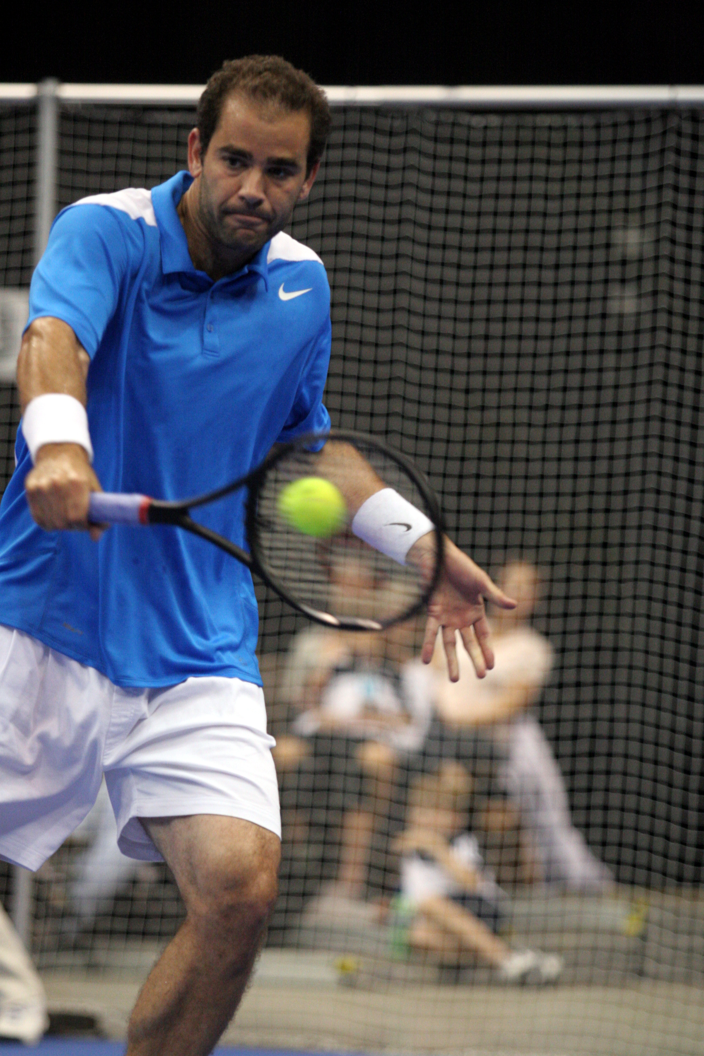 Pete Sampras, American tennis player and former world #1